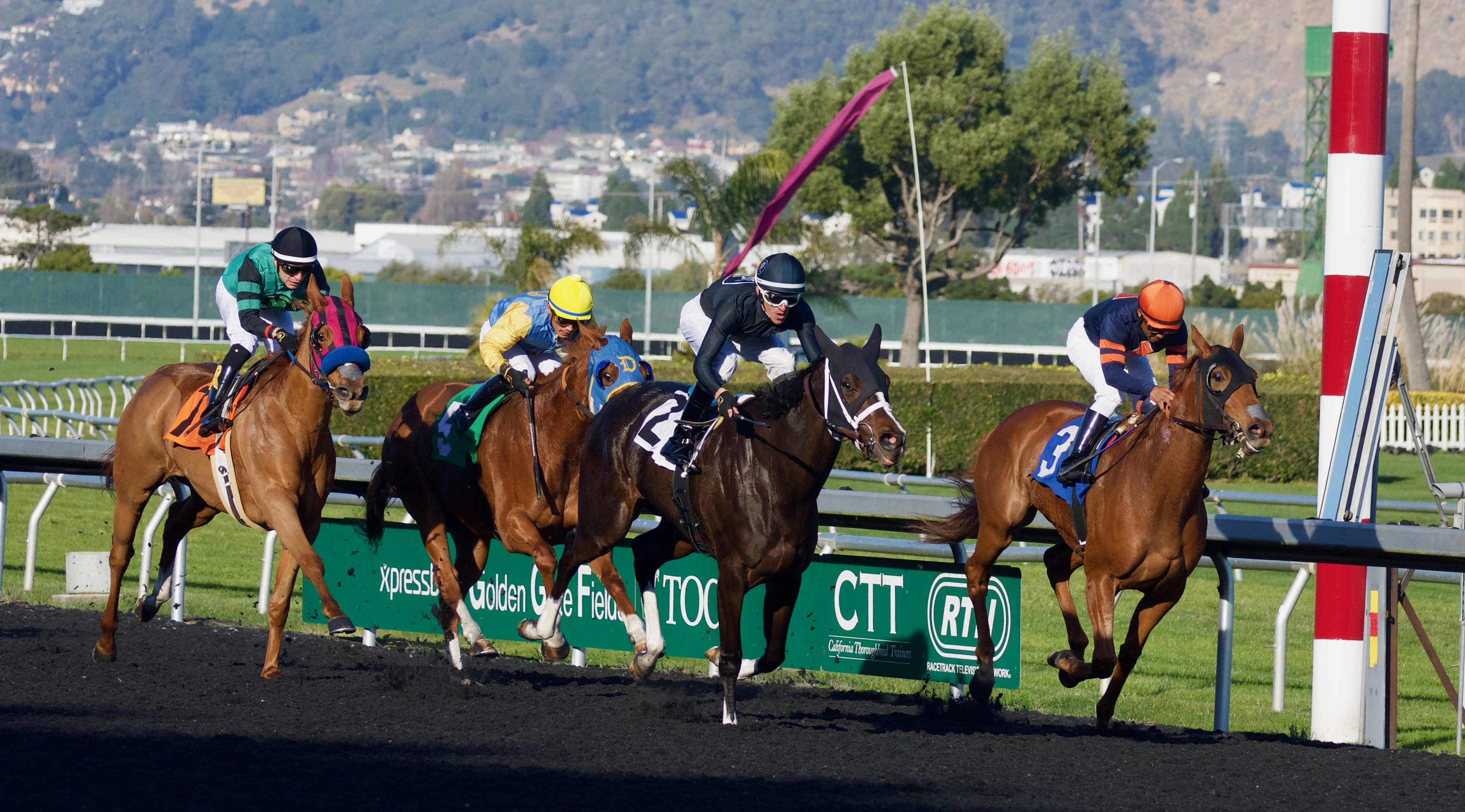 Horse racing at Golden Gate Fields, Albany, California. Race 5, 6 furlongs. Winner: #2 Our Renee Place: #3 She Sang Show: #5 Myangelcindy Also ran: Neat N Teide, Many Lights, Count On Nikki, and Sought More Pep 26 December 2017